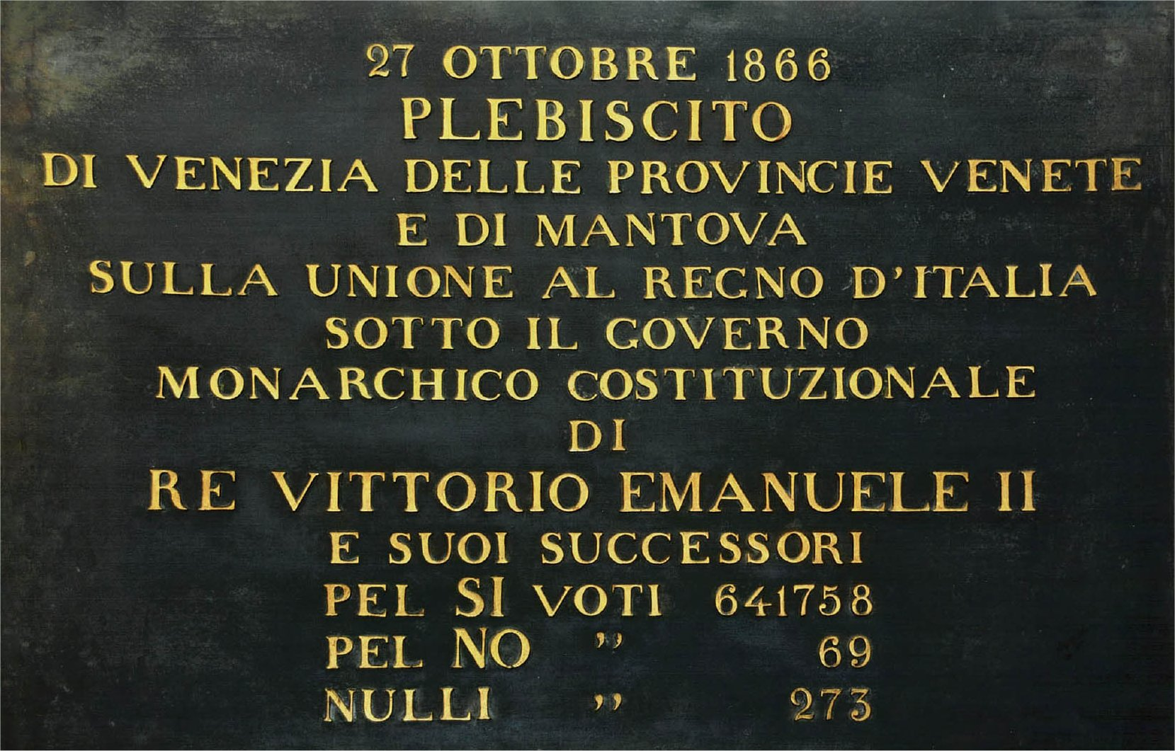 Plaque for the results of the 1866 Plebiscite of the Venetian provinces and Mantua for the union to the Kingdom of Italy